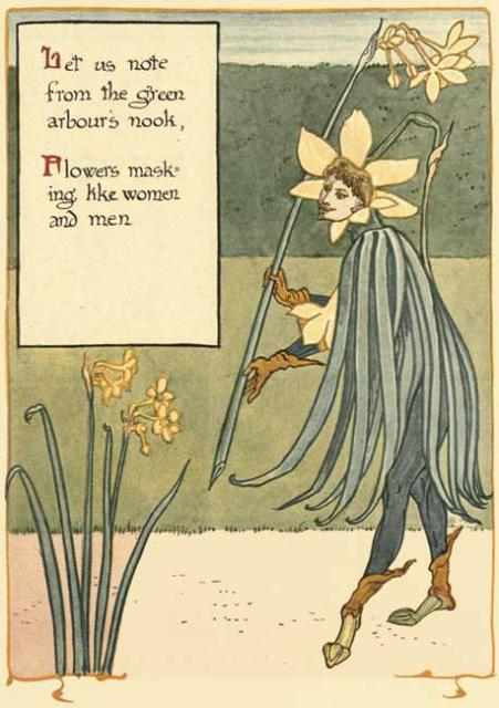 (Removed after reusableart request.)